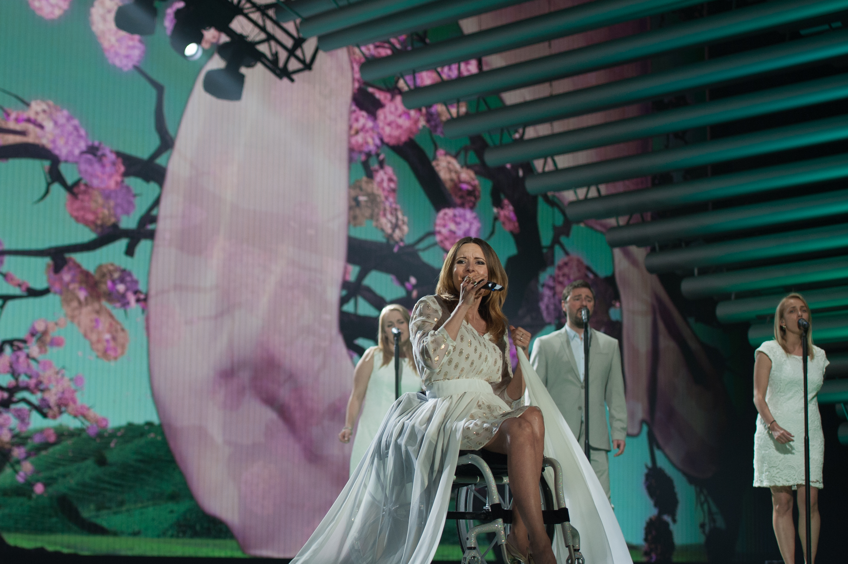 Eurovision Song Contest Vienna 2015: Monika Kuszyńska